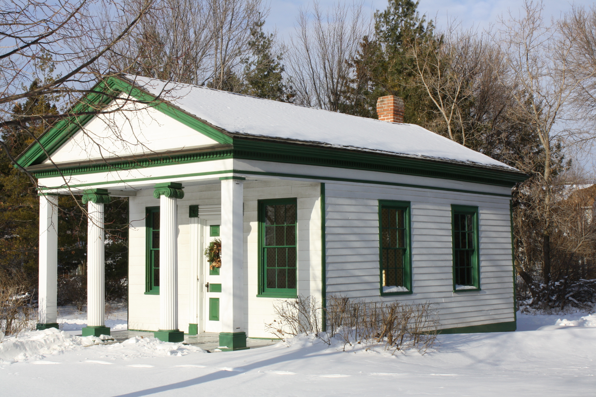 The Baird Law Office at Heritage Hill State Historic Park, listed on the National Register of Historic Places.